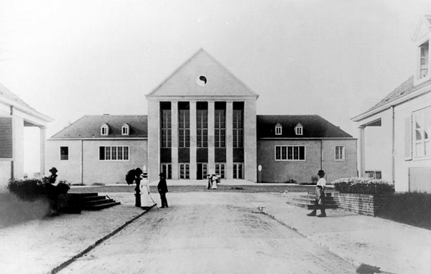 Festspielhaus Hellerau in Hellerau (nowadays part of Dresden) in 1913. The Hellerau Theatre circa 1913. Image courtesy of King's College Centre for Computing in the Humanities, London, UK.